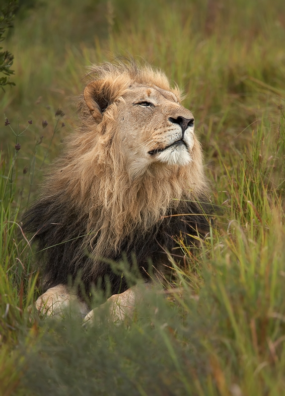 Panthera leo - male, South Africa